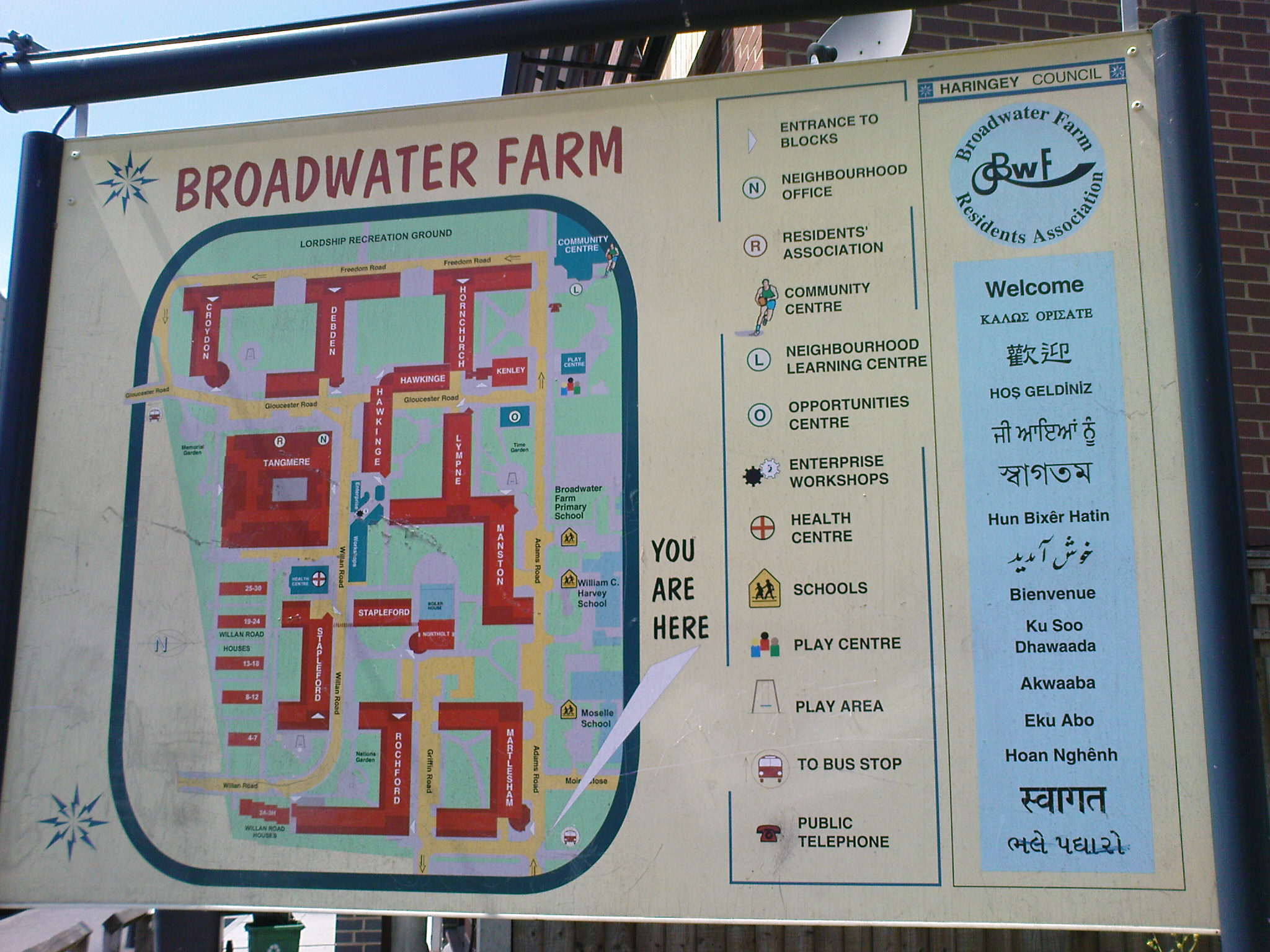 multiple languages in Tottenham (London)